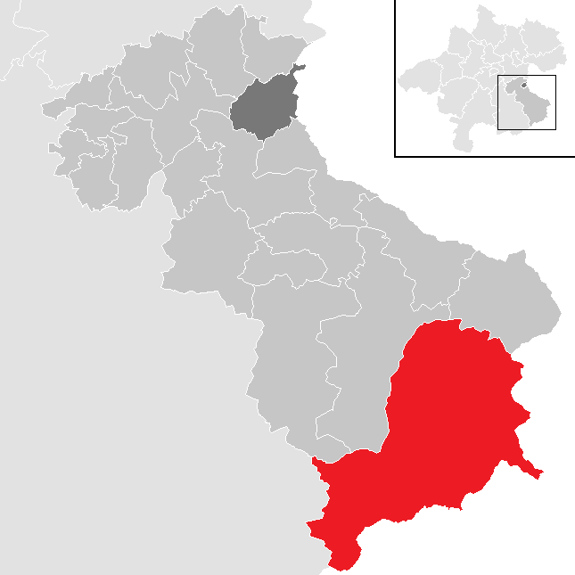 district Steyr-Land